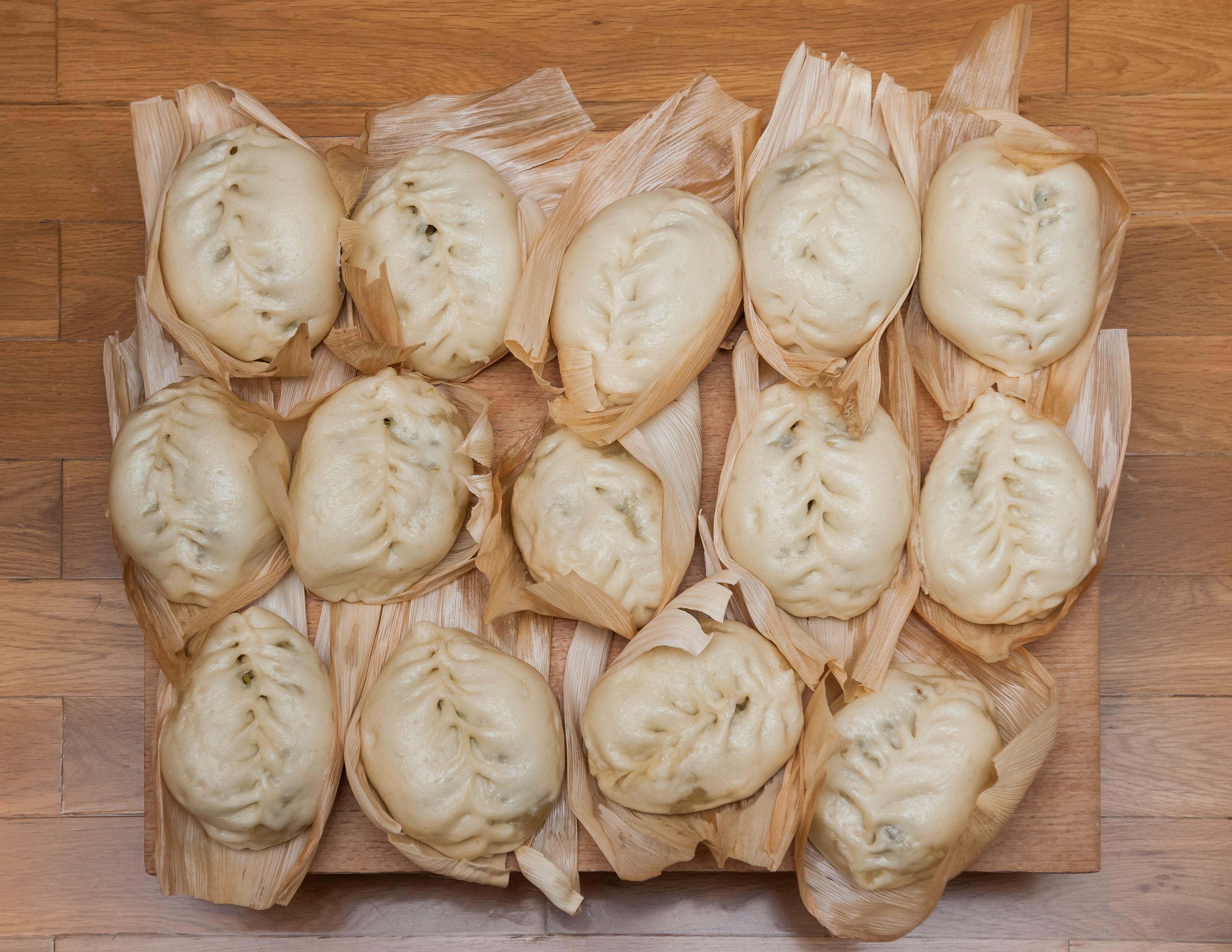 Dalian, Liaoning, China: Homemade Jiaotze on occasion of a private event